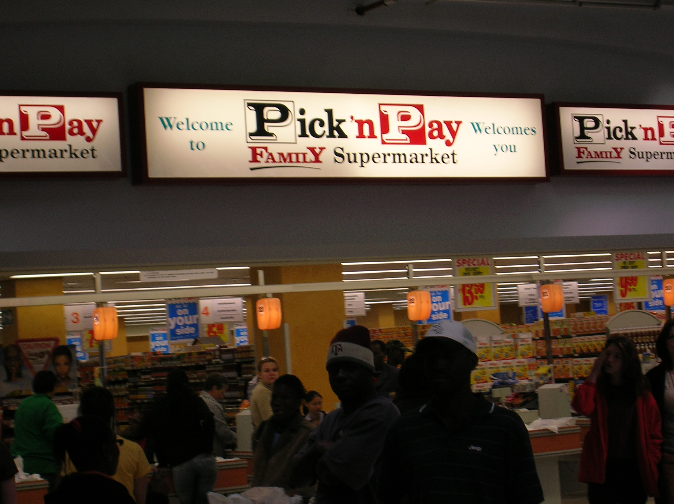 A busy Pick 'n Pay store at the Wernhill Mall in Windhoek, Namibia.